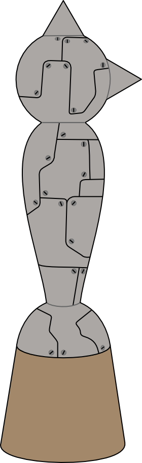 Tezuka Osamu Cultural Prize